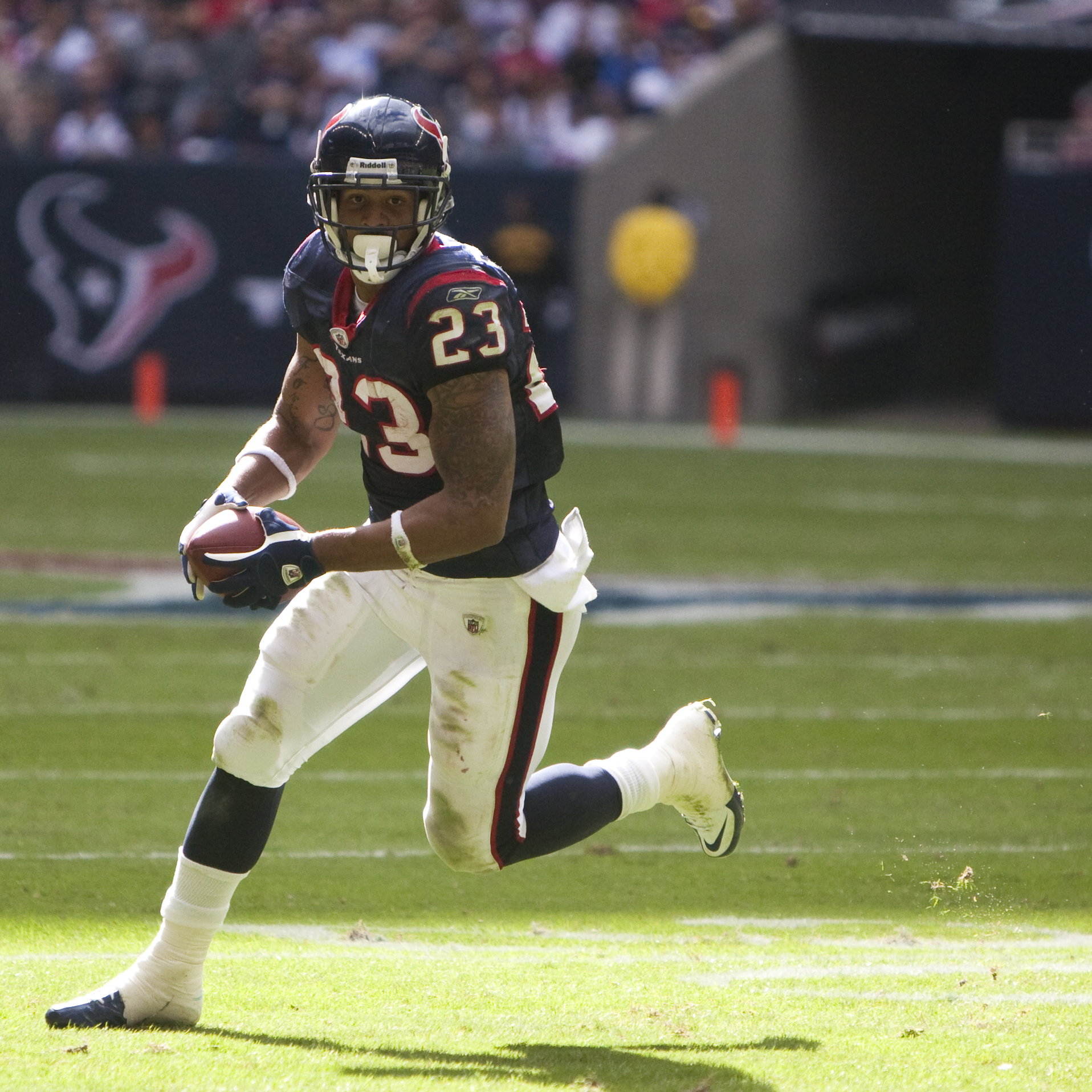 Arian Foster, running back for the Houston Texans. Houston Texans vs. Tennessee Titans